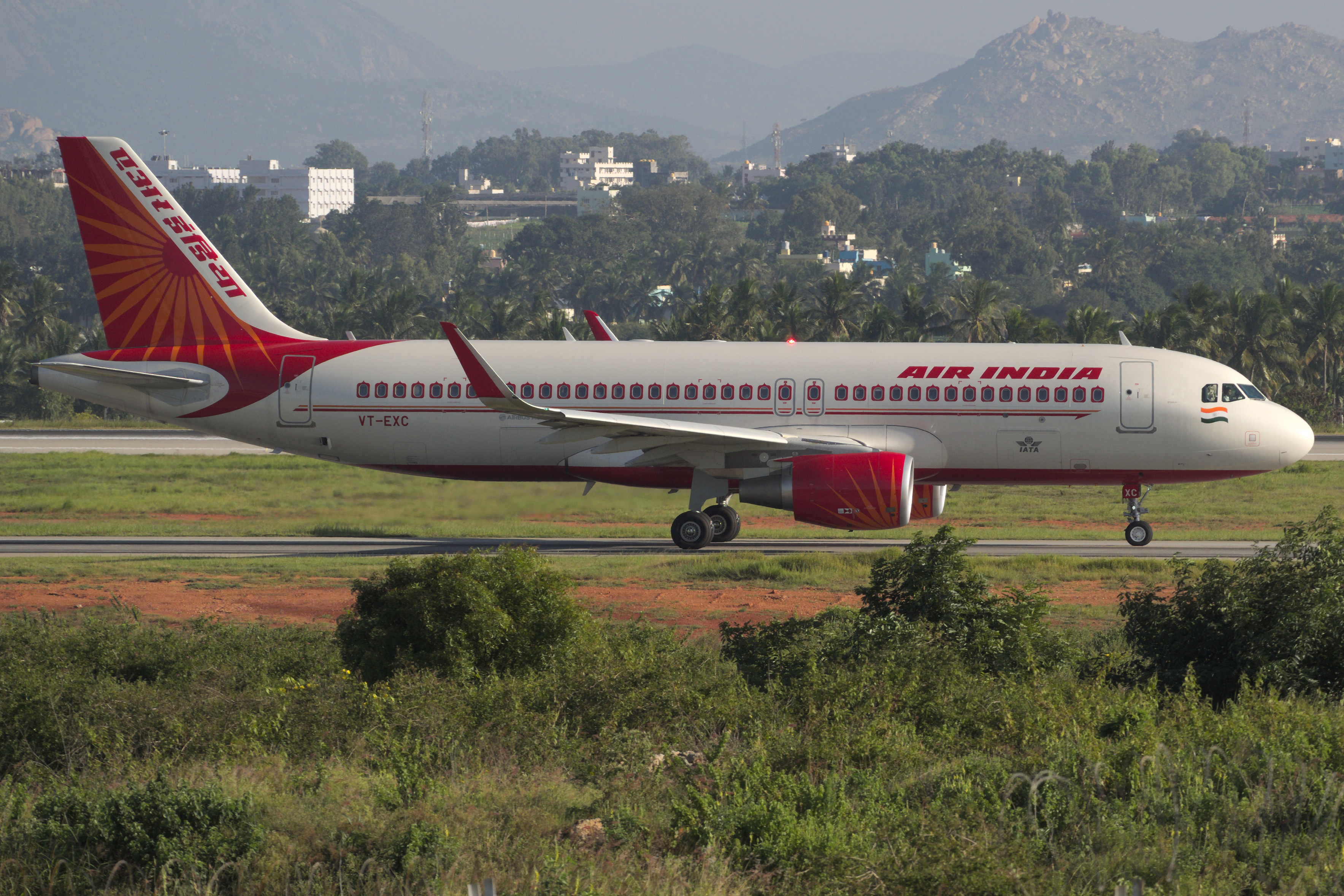 Air India Airbus A320 registered VT-EXC at Kempegowda Int'l Airport Bangalore